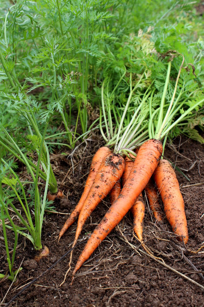 Carotts, France